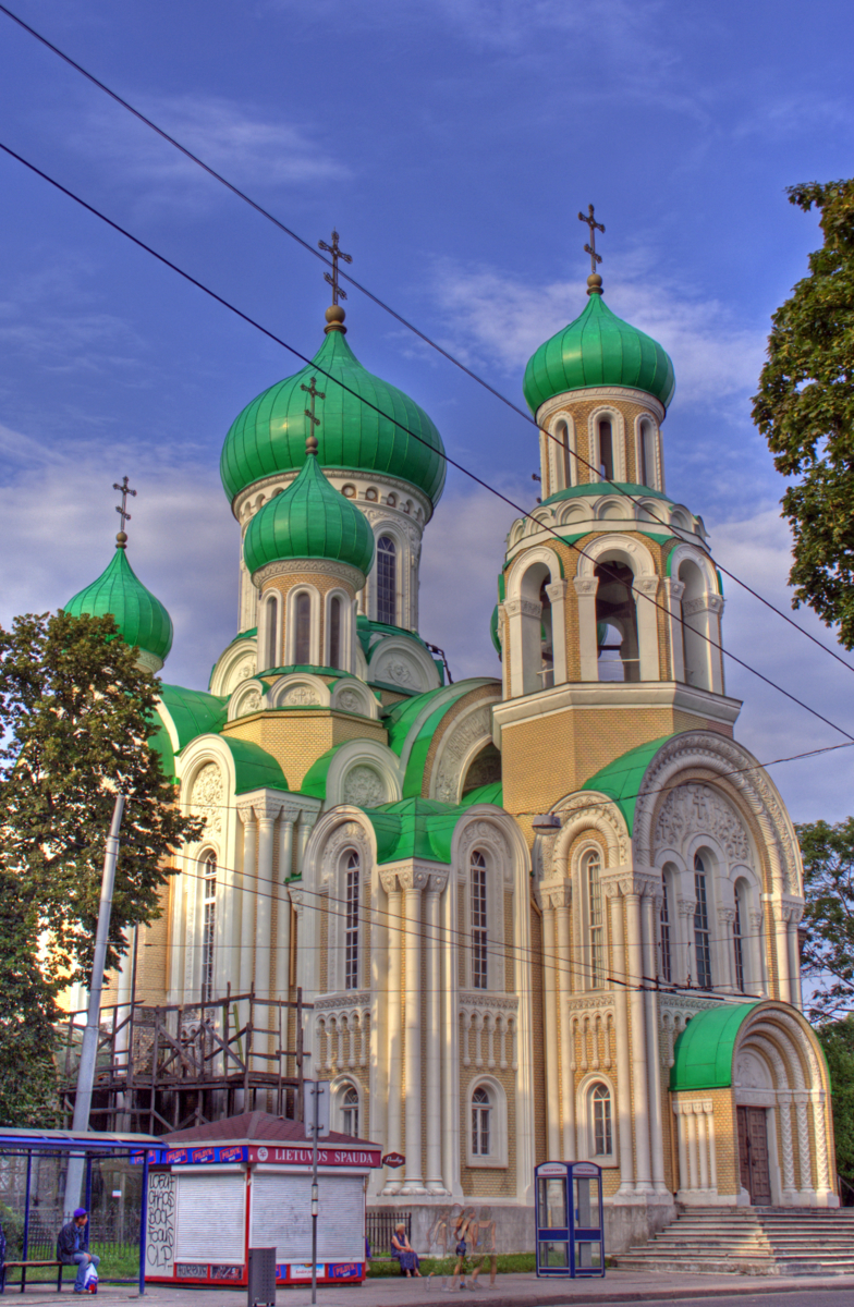 Orthodox Church of St. Michael and St. Constantine in Vilnius, Lithuania.